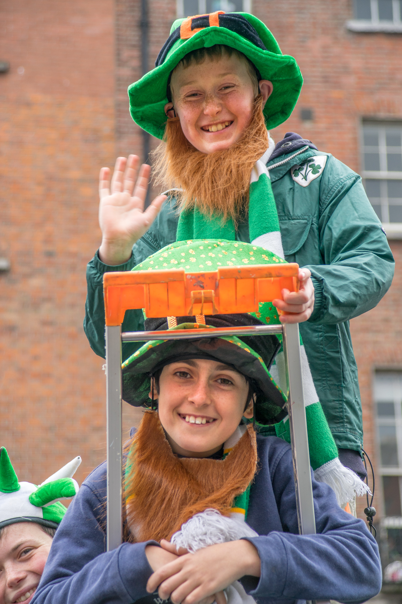 Check out my blog! . If you like to buy a print please visit my wall art shop . This is a free picture released under Creative Commons Attribution 2.0 Generic. Feel free to use and share this picture but please give me credit linking my website or my Flickr account. More info about me on . If you like my pictures please like my Facebook page or follow me on Twitter and Instagram . Thanks!